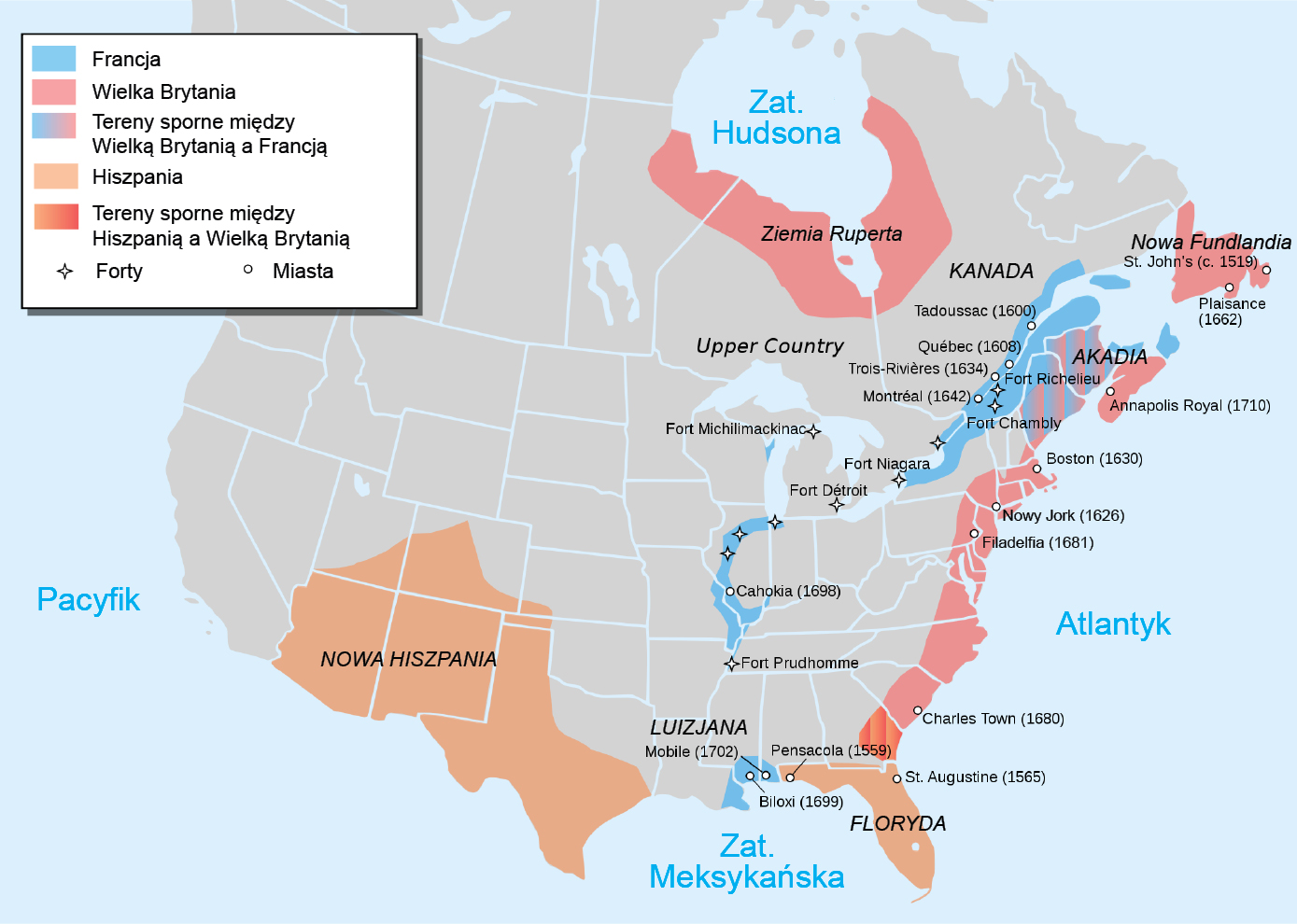 A map depicting the state of European control in North America after Queen Anne's War, as the North American theater of the War of the Spanish Succession is sometimes called. This map is intended to depict approximate areas of occupation, except for the areas whose claims were resolved (see File:QueenAnnesWarBefore.svg): Rupert's Land and Newfoundland. It is not intended to show the full extent of European land claims, which is generally much larger, or Native American areas of claim or control. Areas with solid colors are occupied or dominated by European settlements in the area; disputed areas may or may not be have European settlements.